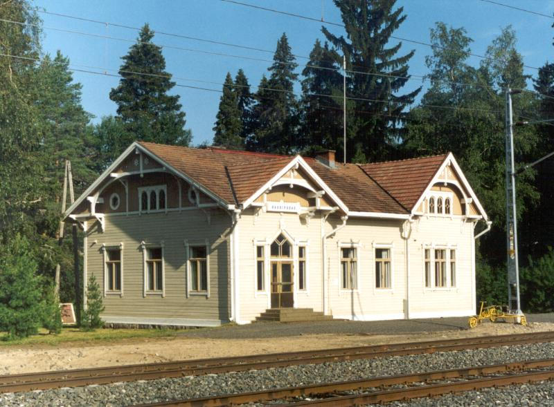 Haukipudas railway station in Haukipudas, Finland. Built in 1903, design by Bruno Granholm.